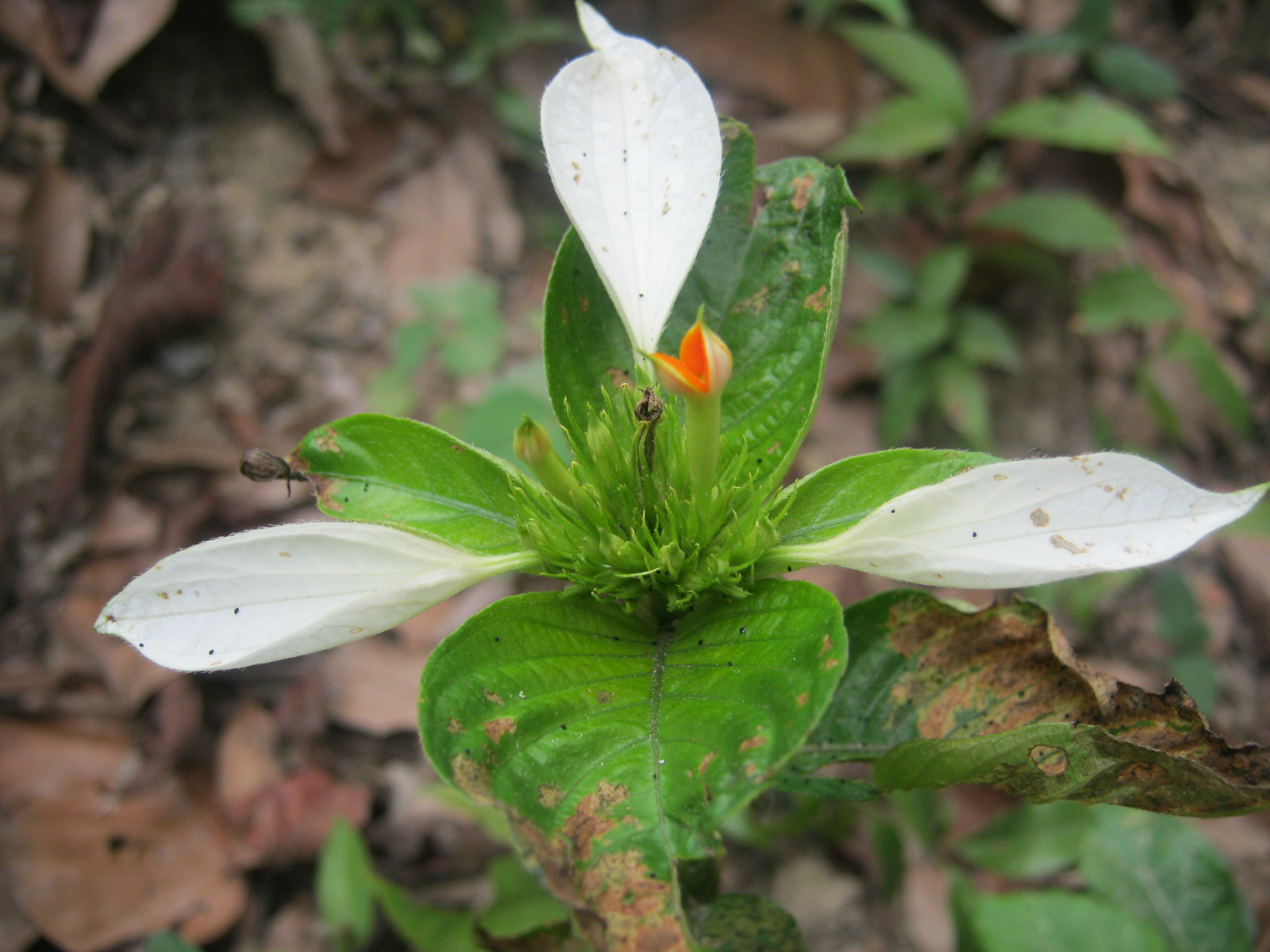 A shrub found in Nepal.